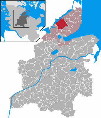 Locator maps of municipalities in Schleswig-Holstein - District Rendsburg-Eckernförde